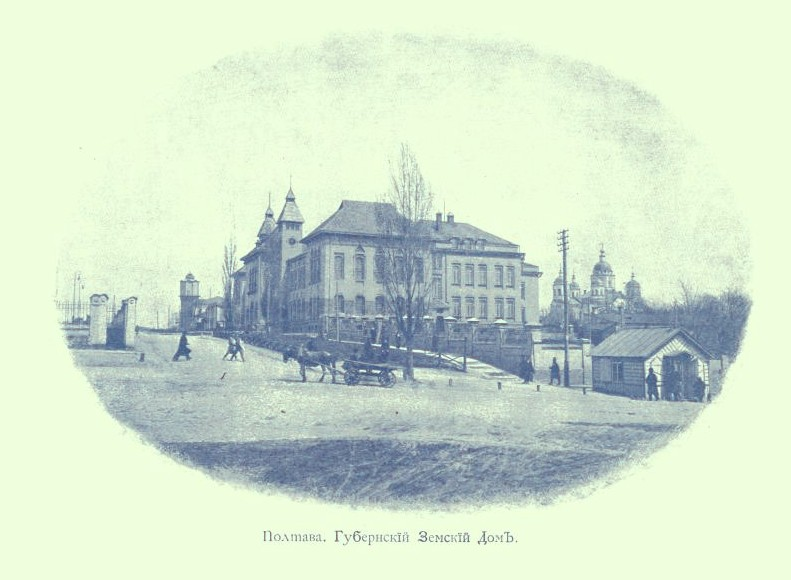 Poltava. Home of provincial zemstvo. The beginning of the 20th century.